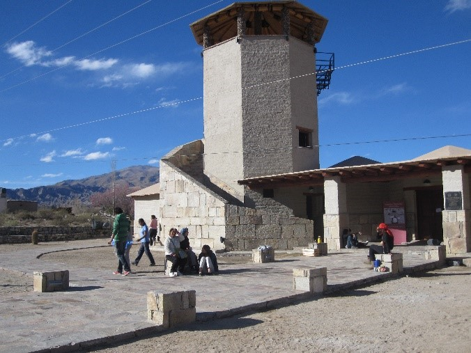 Rural Community Museum of Barranca Larga, El Bolsón Valley, Belén, Catamarca